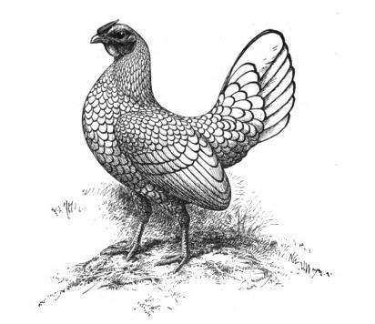 The example image of the ideal Silver Sebright hen from the American Poultry Association's Standard of Perfection circa 1905.